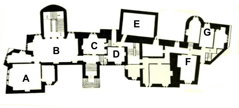 Plan of Dunster Castle, pre-1860s